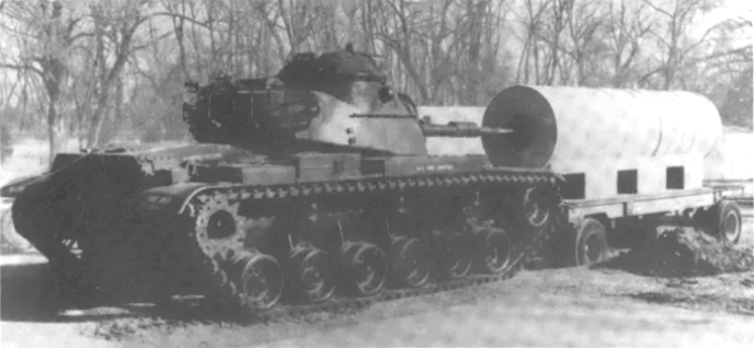 M60 tank with silencer.